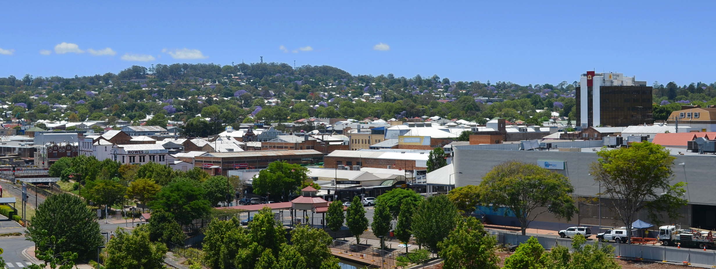 Taken from the rooftop carpark at Grand Central Shopping Centre looking north-east